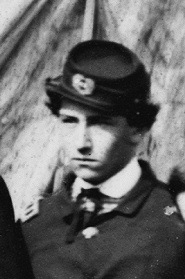 First Lieutenant John Haskell Calef, of Battery A, 2nd U.S. Artillery, at Culpeper, VA.